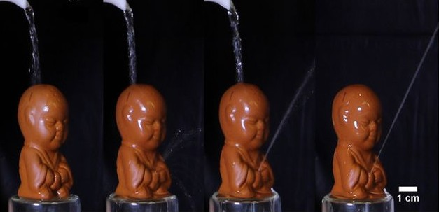 Hollow ceramic artifacts can serve as thermometers for tea brewing, when hot water poured on the head of the zisha ceramic pee-pee boy triggers a water jet. The jetting distance correlates with the water temperature. Frame rate is about 1 s.